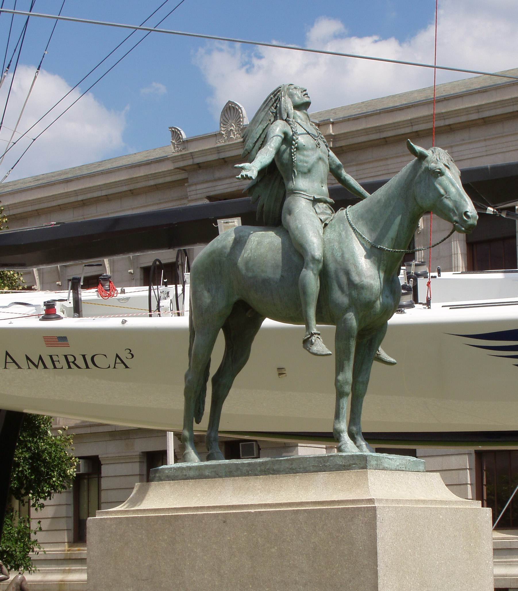 'Appeal to the Great Spirit' by sculptor Cyrus E. Dallin, outside the Boston Museum of Fine Arts, Boston, Massachusetts. Note the America 3 yacht in the background; a temporary addition to the MFA's front lawn. Photograph taken by me, August 2005.